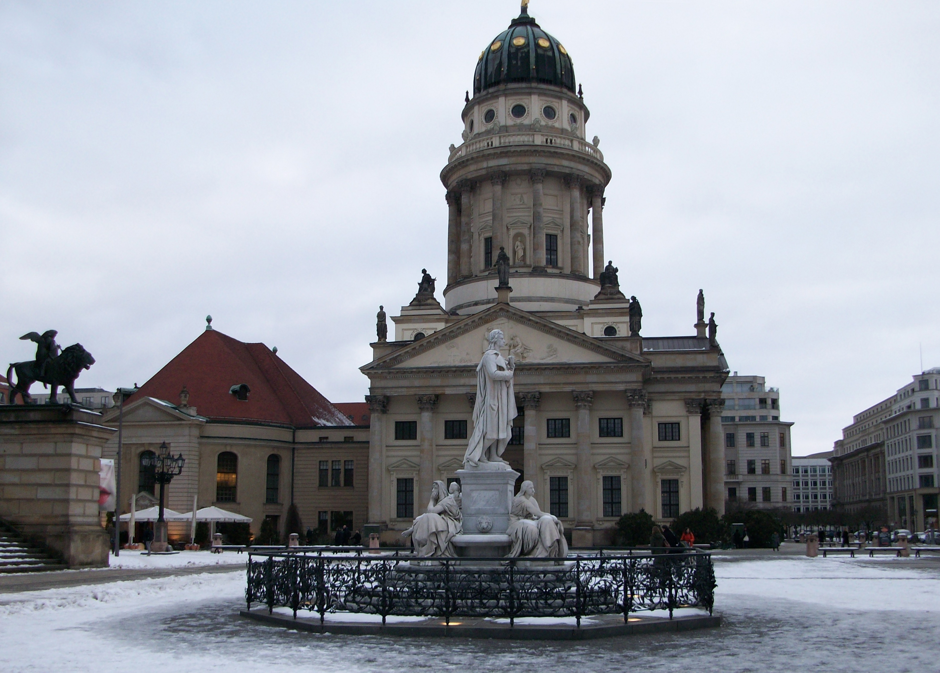 The French Cathedral(Französischer Dom) during winter, with Friedrich Schiller Statue in front. Taken at Gendarmenmarkt,Berlin,Germany Feb 09.